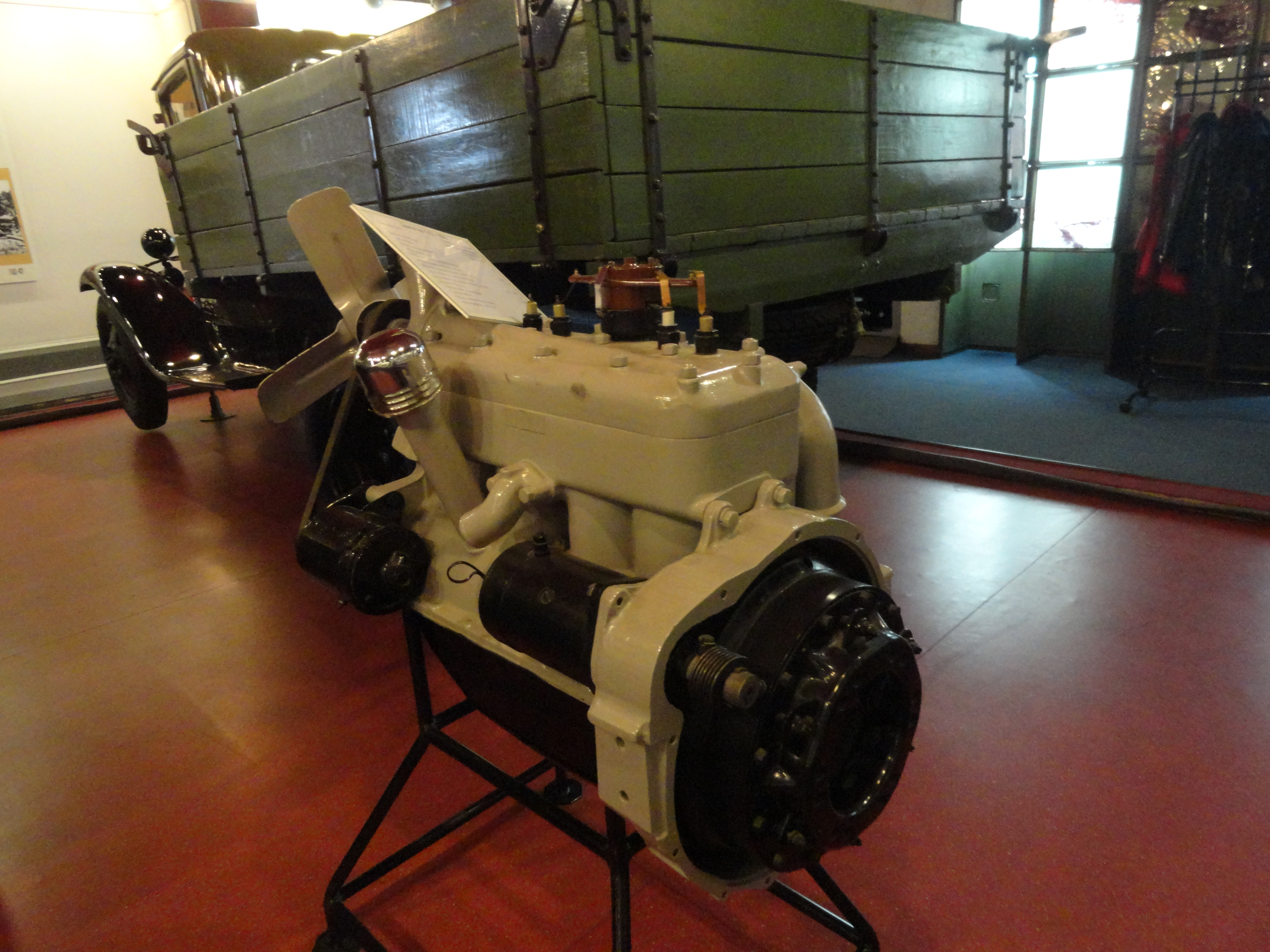 GAZ-MM engine from the exposition of the Museum of the History of JSC "GAZ", Nizhny Novgorod.